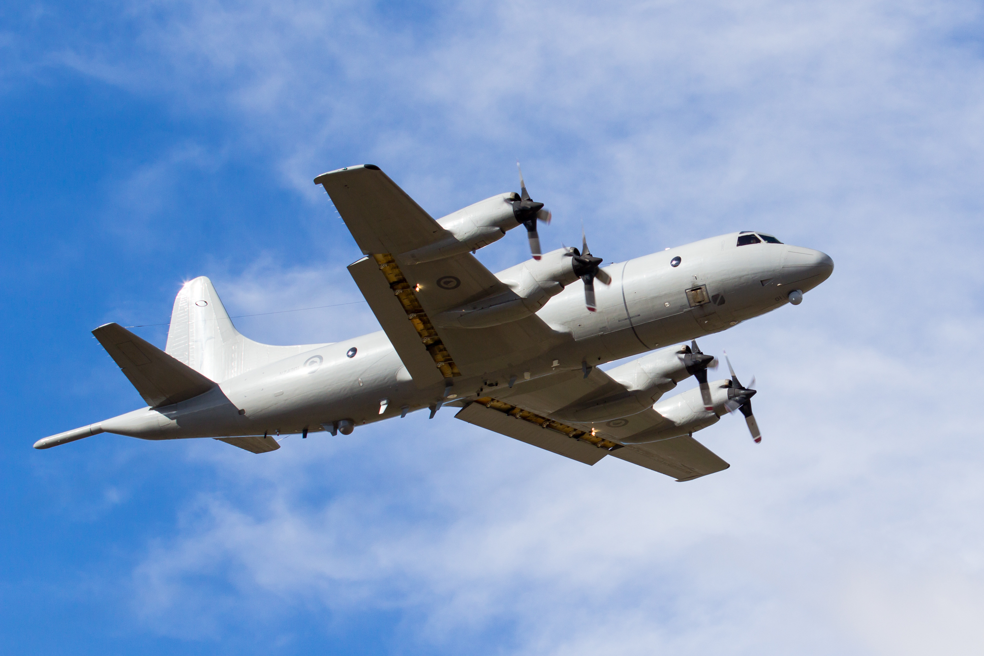 Classic Fighters 2015 - RNZAF P-3 Orion NZ4201